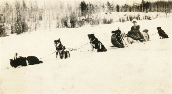 Kate Rice was a famed female prospector, trapper, musher, and adventurer who worked in Northern Manitoba from 1914 to the 1960s.